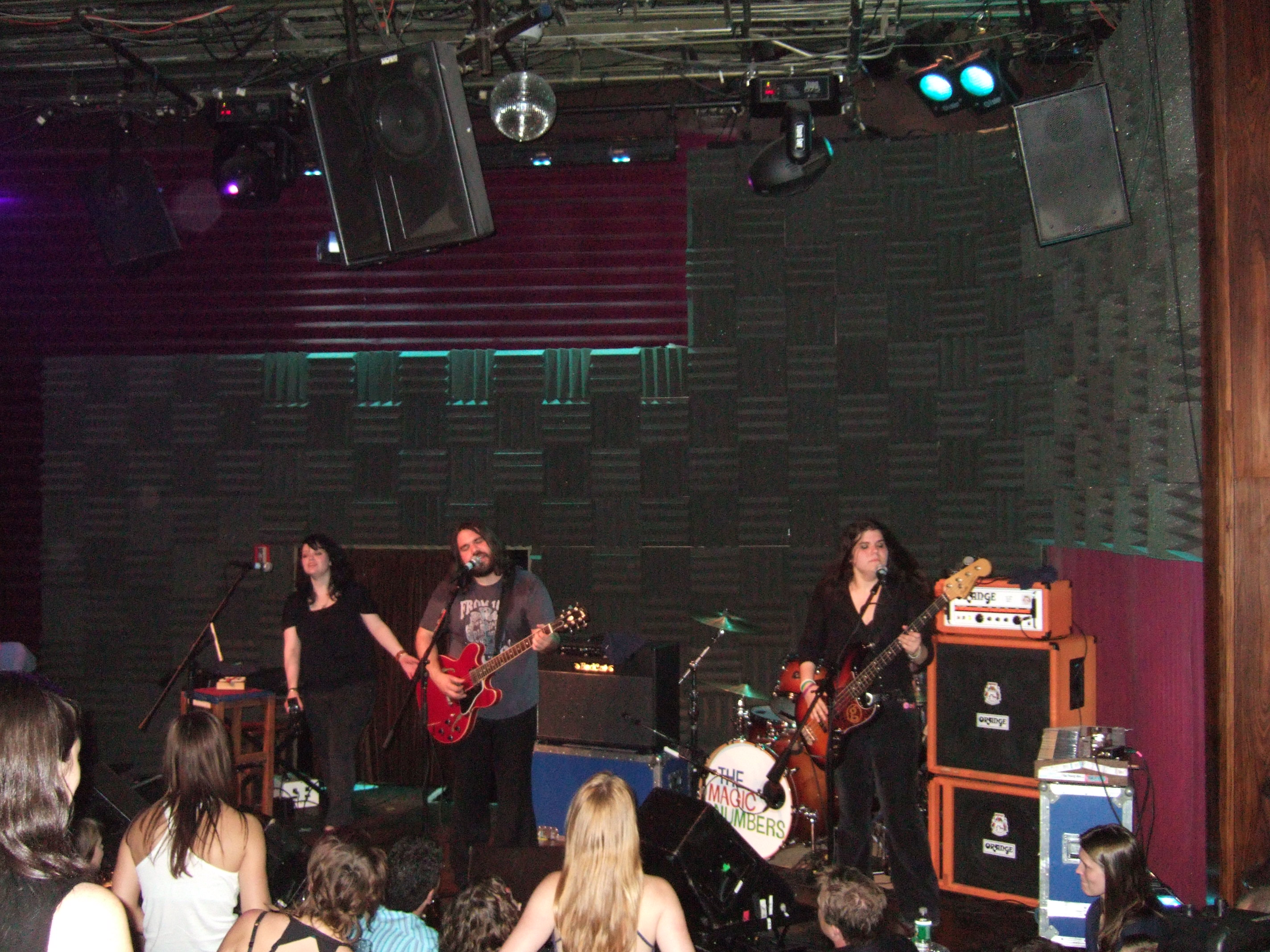 The Magic Numbers, playing at Joe's Pub in New York City.